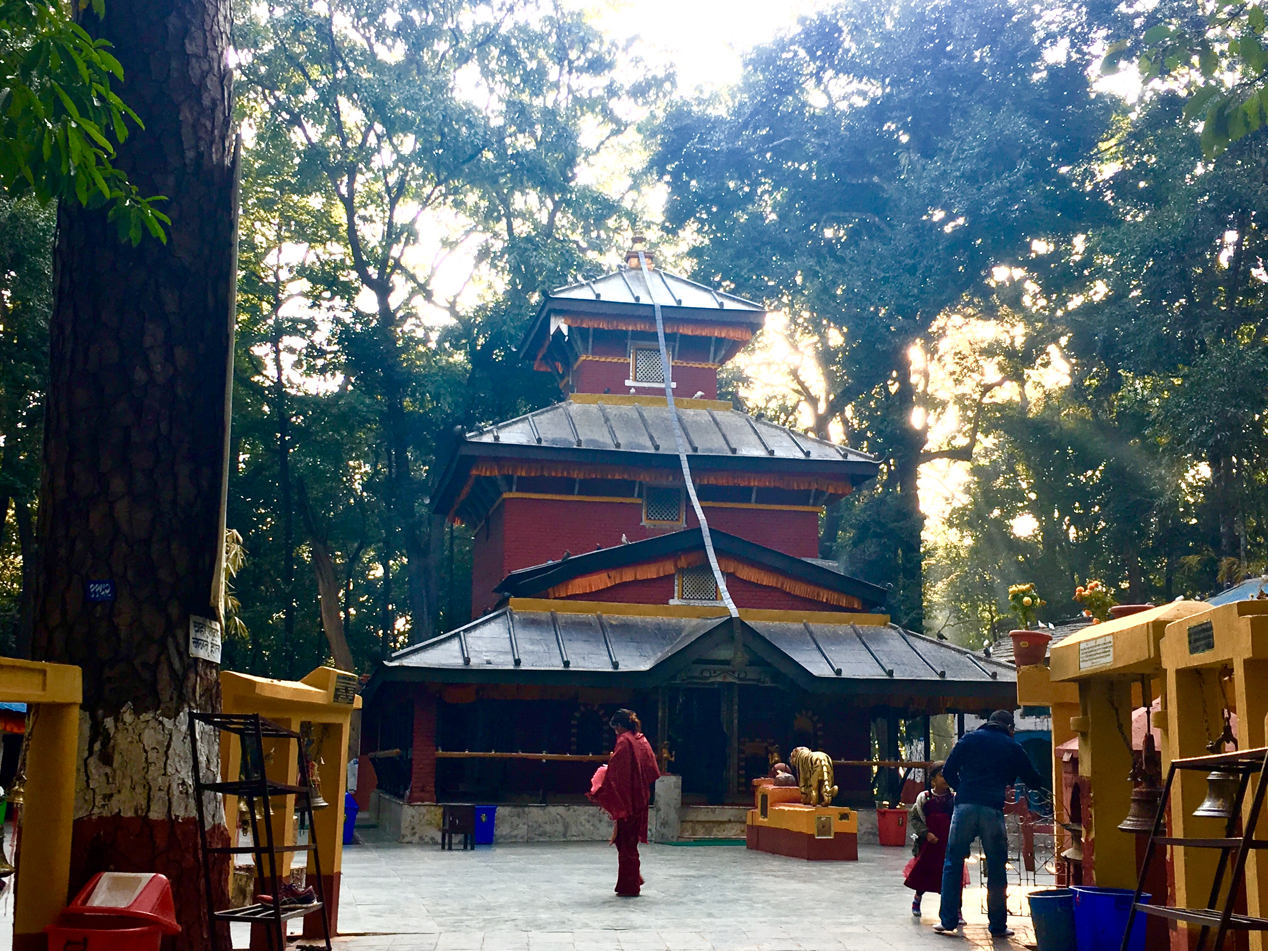 This is the photograph of the baglung kalika bhagawati temple from the front side.